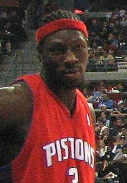 Photo of the Detroit Pistons Ben Wallace.